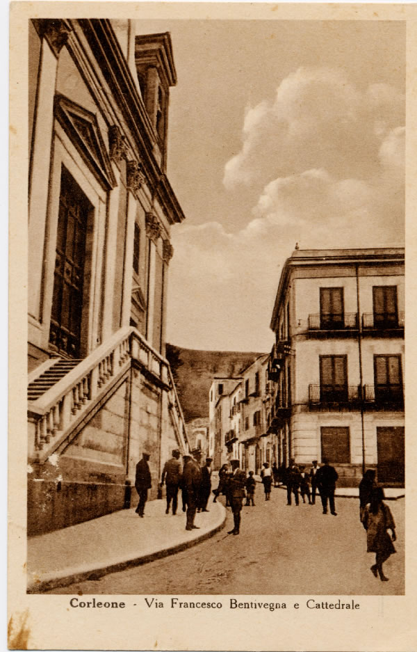 Via Francesco Bentivegna and Cathedral (Corleone)